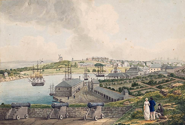 View of Sydney Cove from Dawes Point - by Joseph Lycett circa 1818